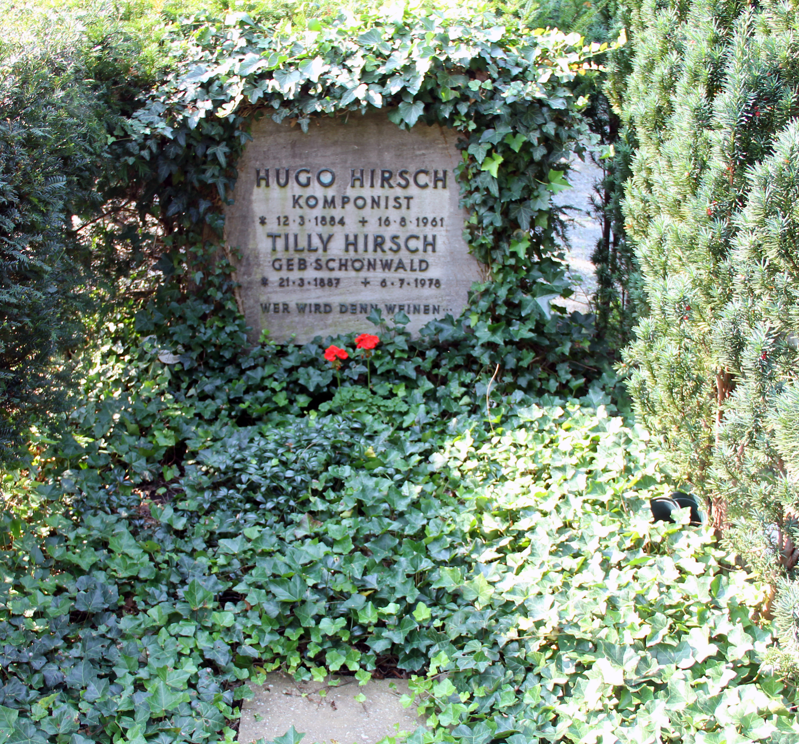 Grave, Hugo Hirsch, Königin-Luise-Straße 57, Berlin-Dahlem, Germany